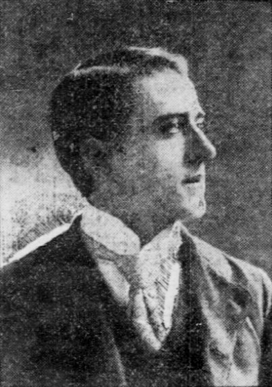 Dr. Ralph V. Chamberlin